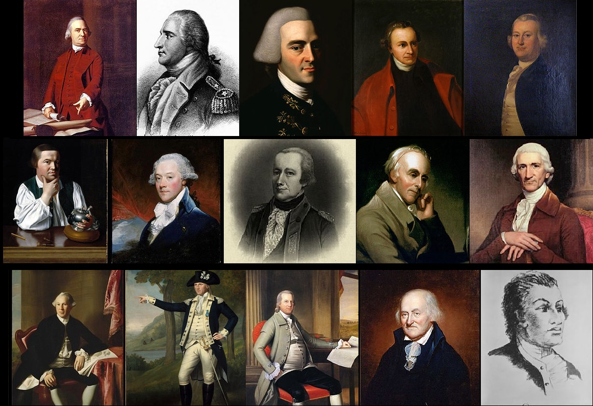 Collage showing several members of the Sons of Liberty